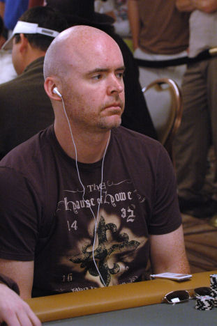 John "Johnny World" Hennigan in 2006 World Series of Poker - Rio Las Vegas.